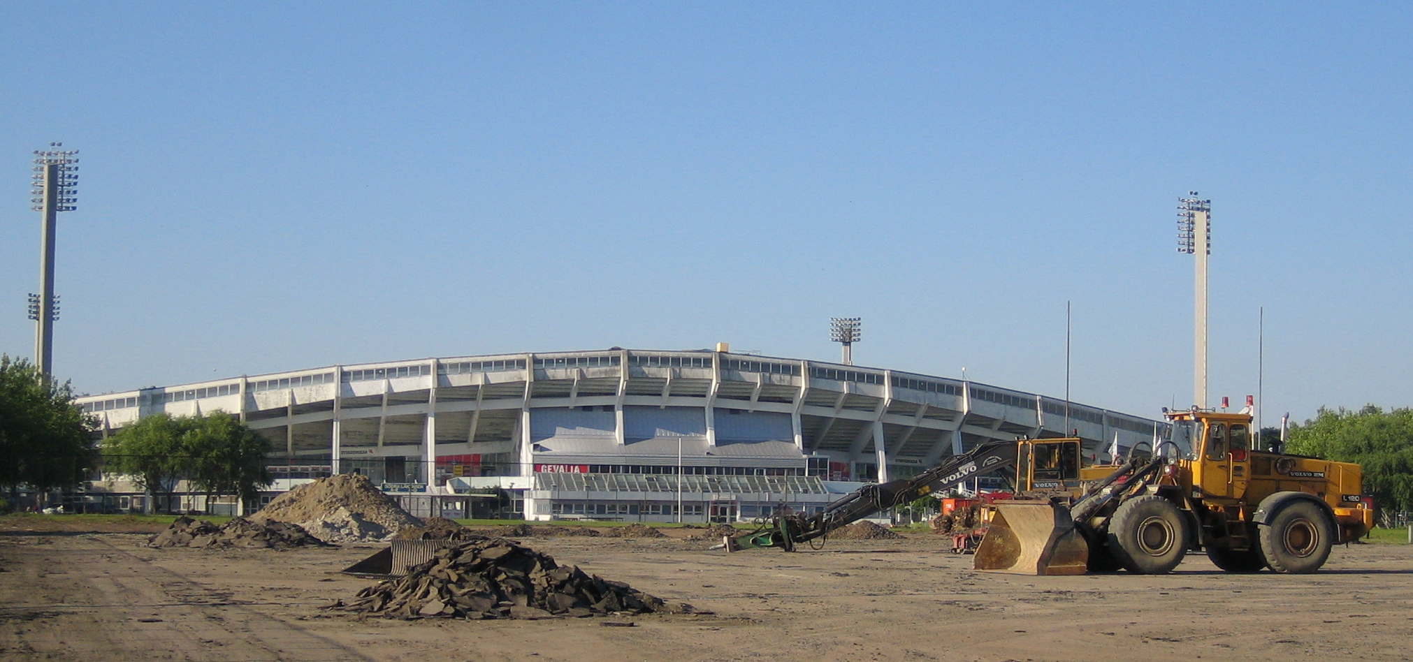 Initial work performed at the building site of the new Malmö Stadion.